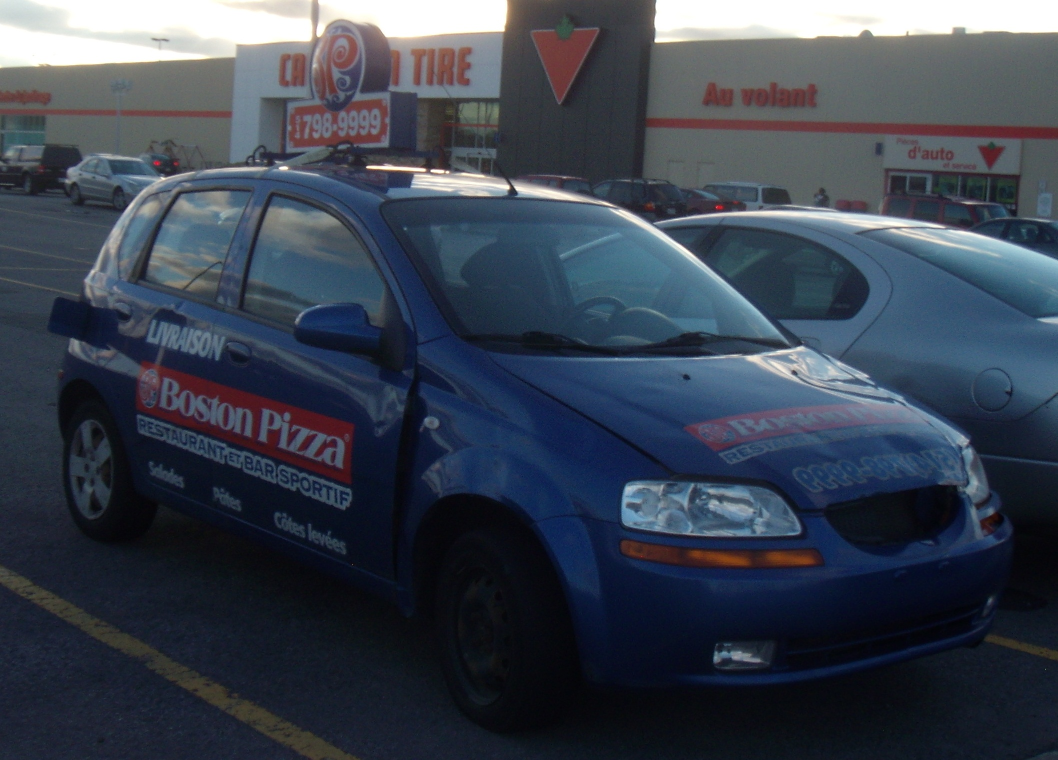 2004-2006 Chevrolet Aveo5 Boston Pizza photographed in Montreal, Quebec, Canada.